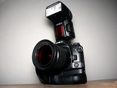 Maxxum 7